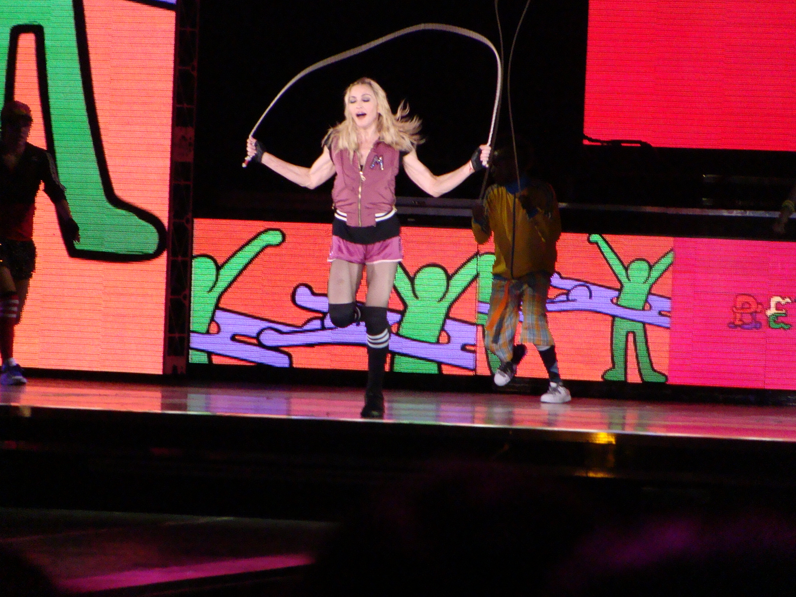 Picture taken at the concert